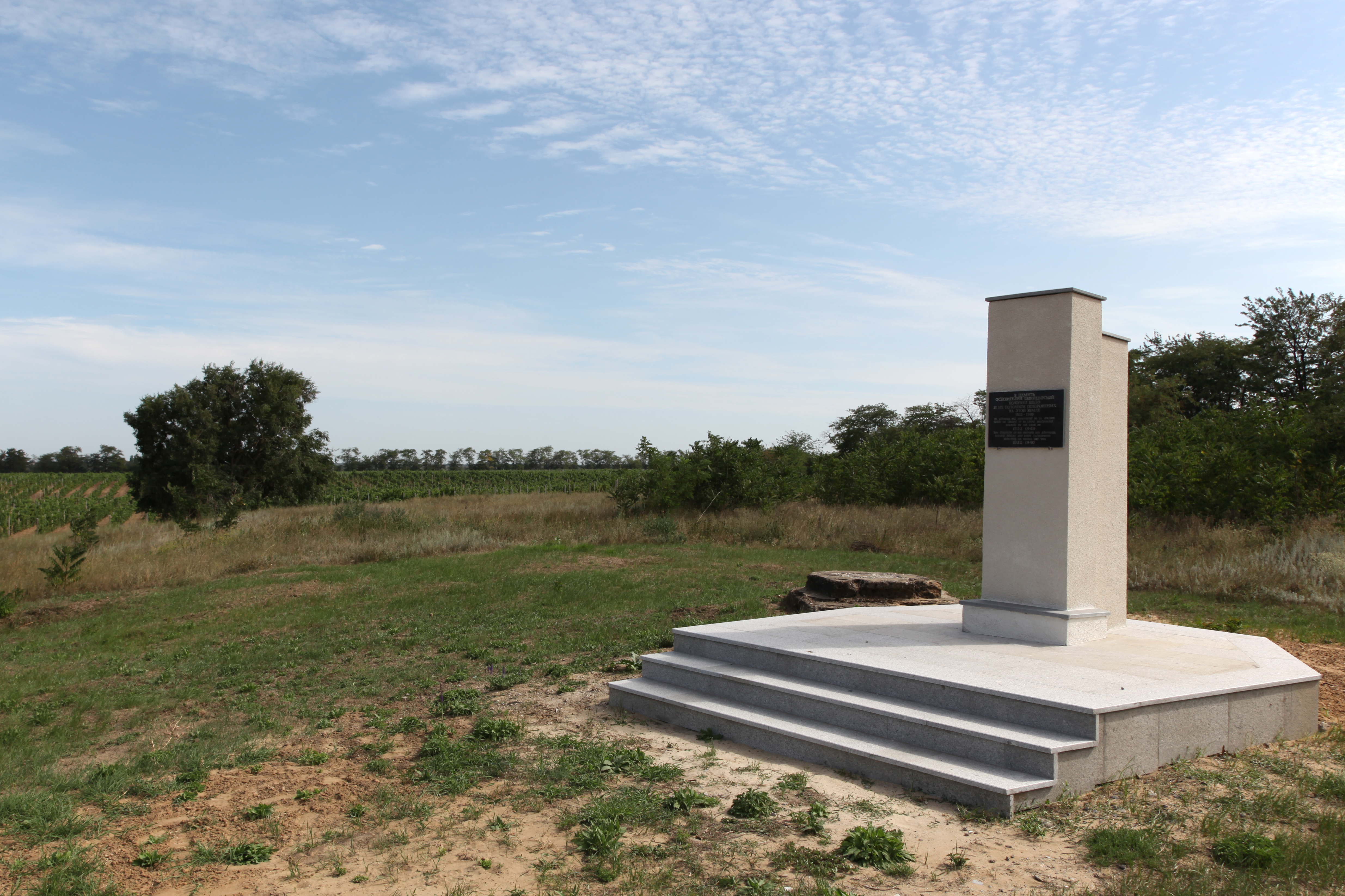 Monument in remembrance of the Swiss settlers' graveyard in Shabo, Ukraine